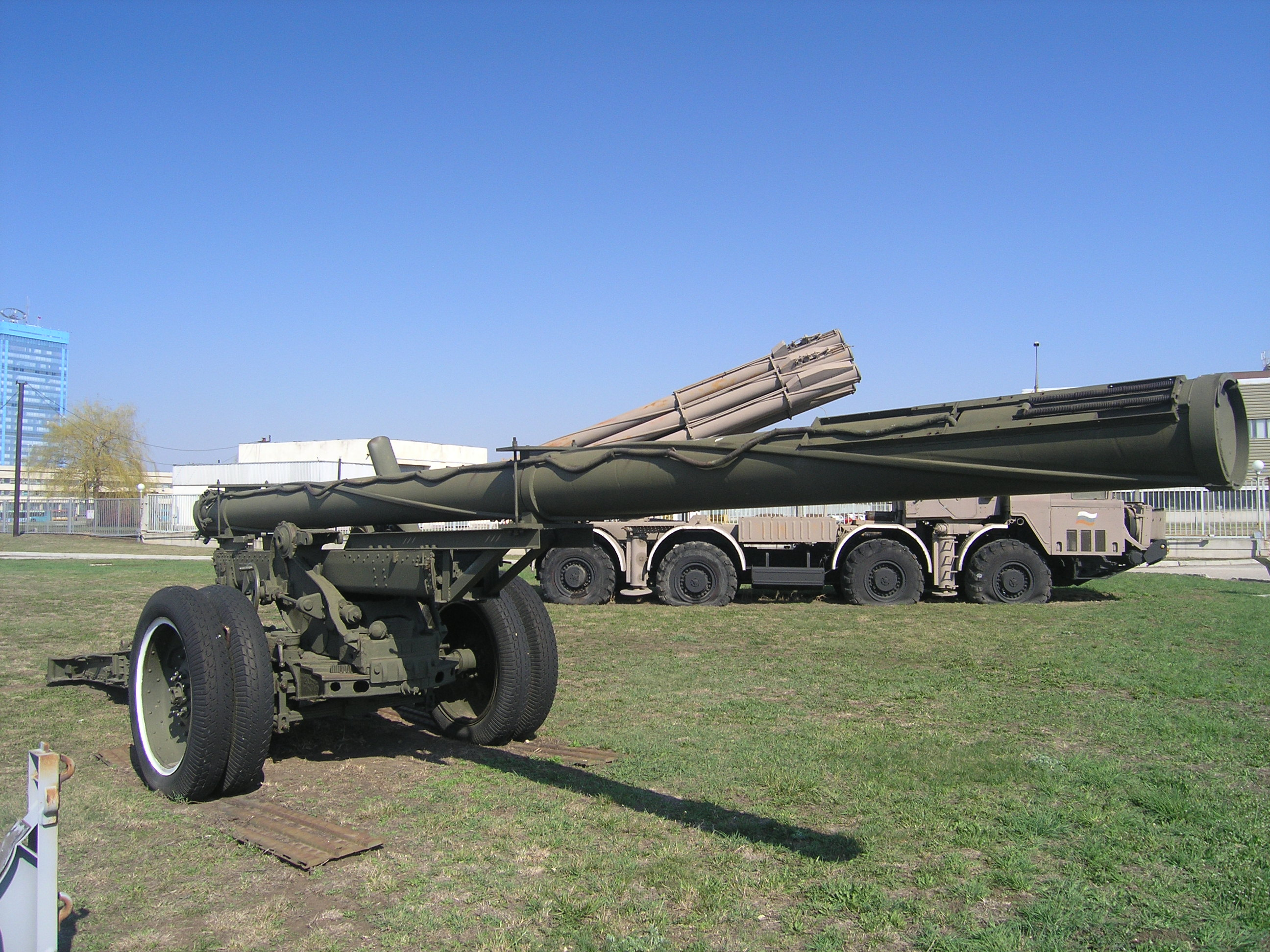 Experimental 300-mm rocket launcher in Technical museum Togliatti